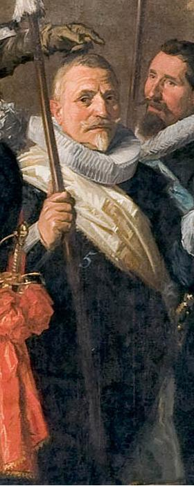 Portrait of Nicolaes Grisz Grauwert in The officers and non-commissioned officers of the Saint George Civic guard in Haarlem in 1639, detail